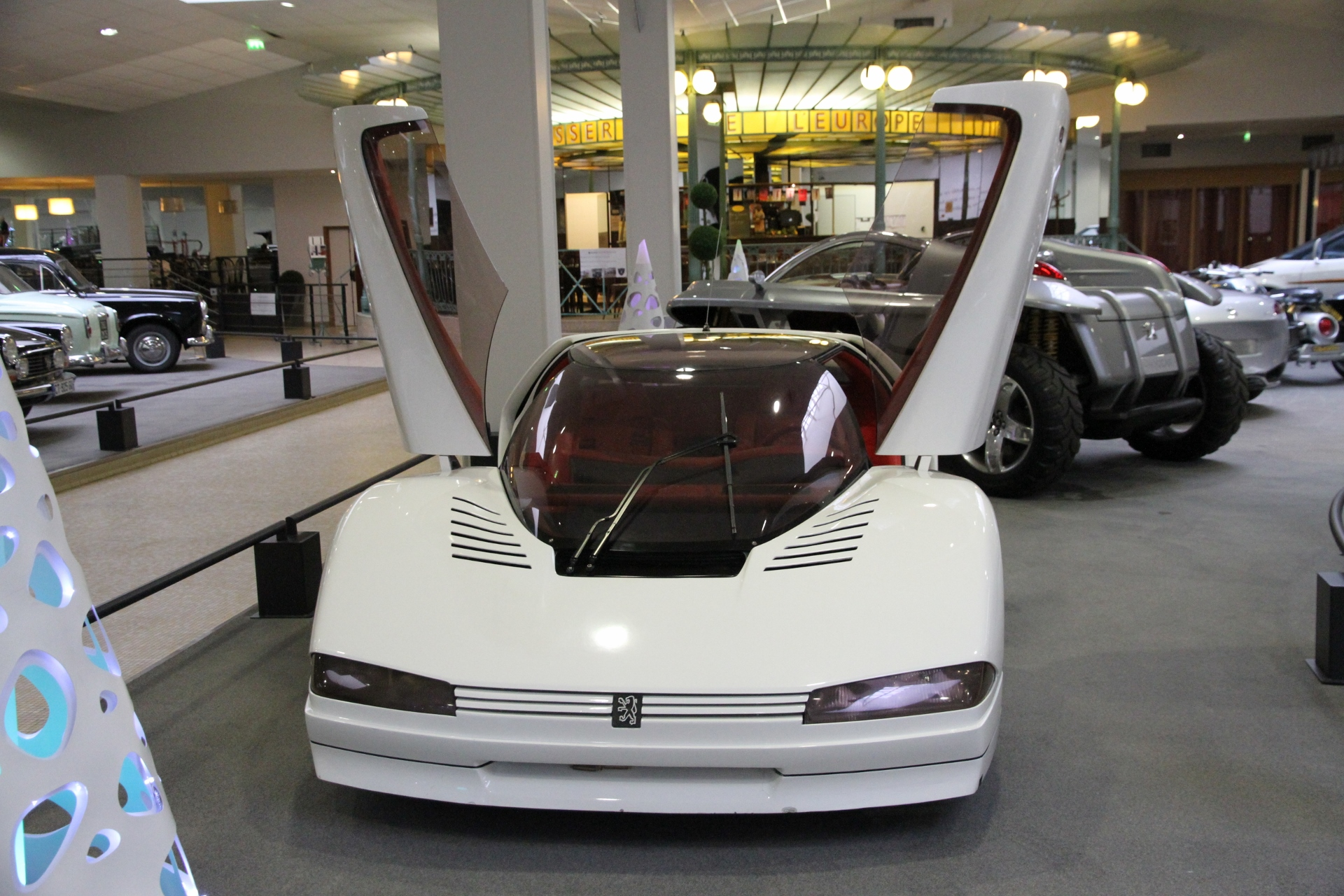 PeugeotQuasar